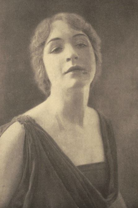 Actress Helen MacKellar (1895 – 1966), on page 530 of the December 1919 Muncey's Magazine.